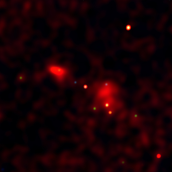 The Chandra image of Arp 270 shows two galaxies about 90 million light years from Earth in the early stage of a merger. The future evolution of these galaxies will be radically changed by the merger as their mutual gravity distorts their shape, and the collision of gas clouds in the galaxies stimulates the formation of new stars. The hot spots (blue) located where the disks of the galaxies are colliding are thought to be due to the formation of hundreds of thousands of new stars as the two gaseous disks rotate through each other. These bursts of star formation create many massive stars that generate intense winds of hot gas, and these stars eventually explode as supernovas. This violent activity produces the hot gas clouds that surround the galaxy disks (red). Astronomers hope to understand more about how supermassive black holes are formed in the centers of galaxies by studying galaxies at different stages in the merging process. These studies will also provide valuable insight as to how our own Milky Way Galaxy formed and evolved. In the image, red represents low, green intermediate, and blue high-energy (temperature) X-rays.